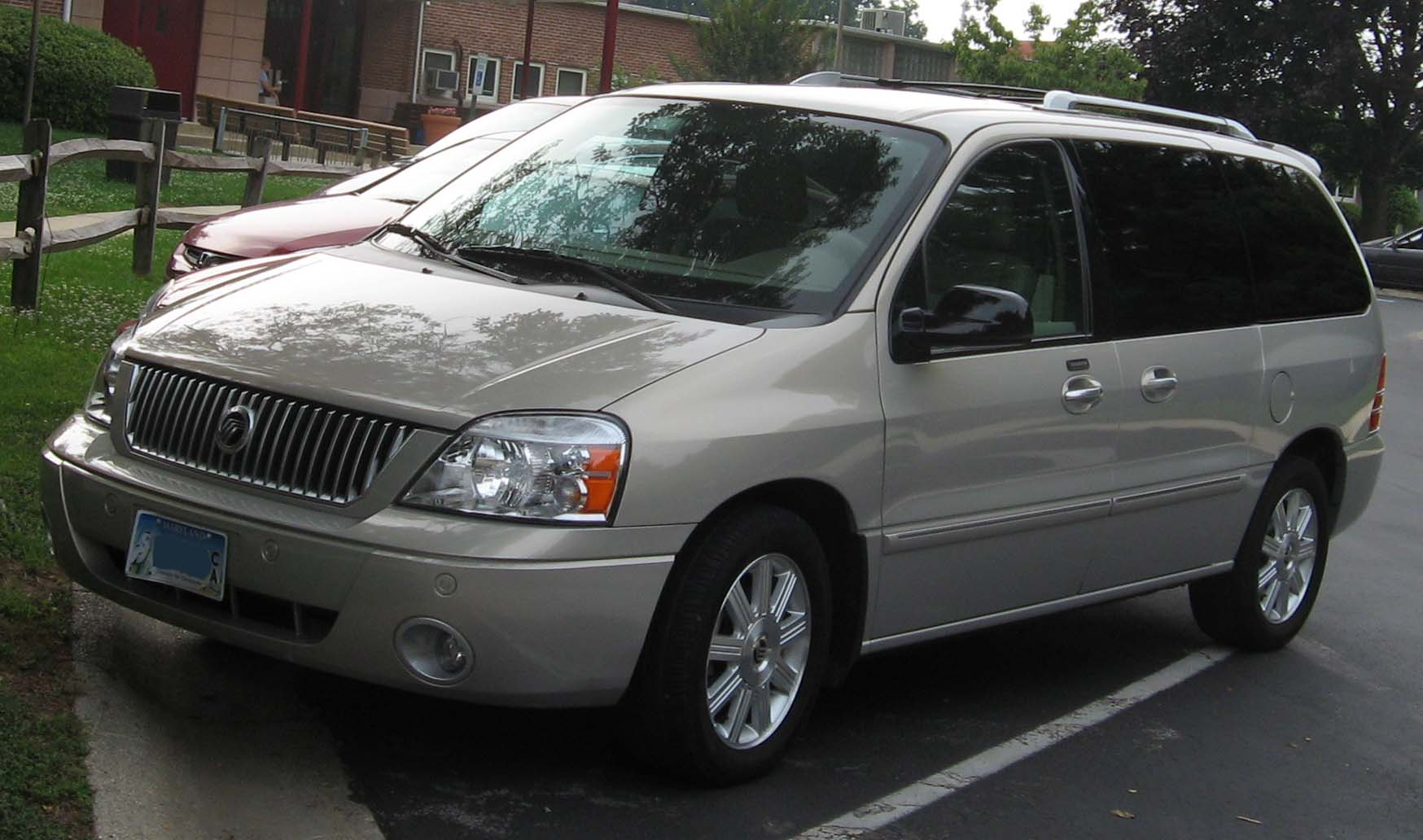 2004-2006 Mercury Monterey photographed in USA.